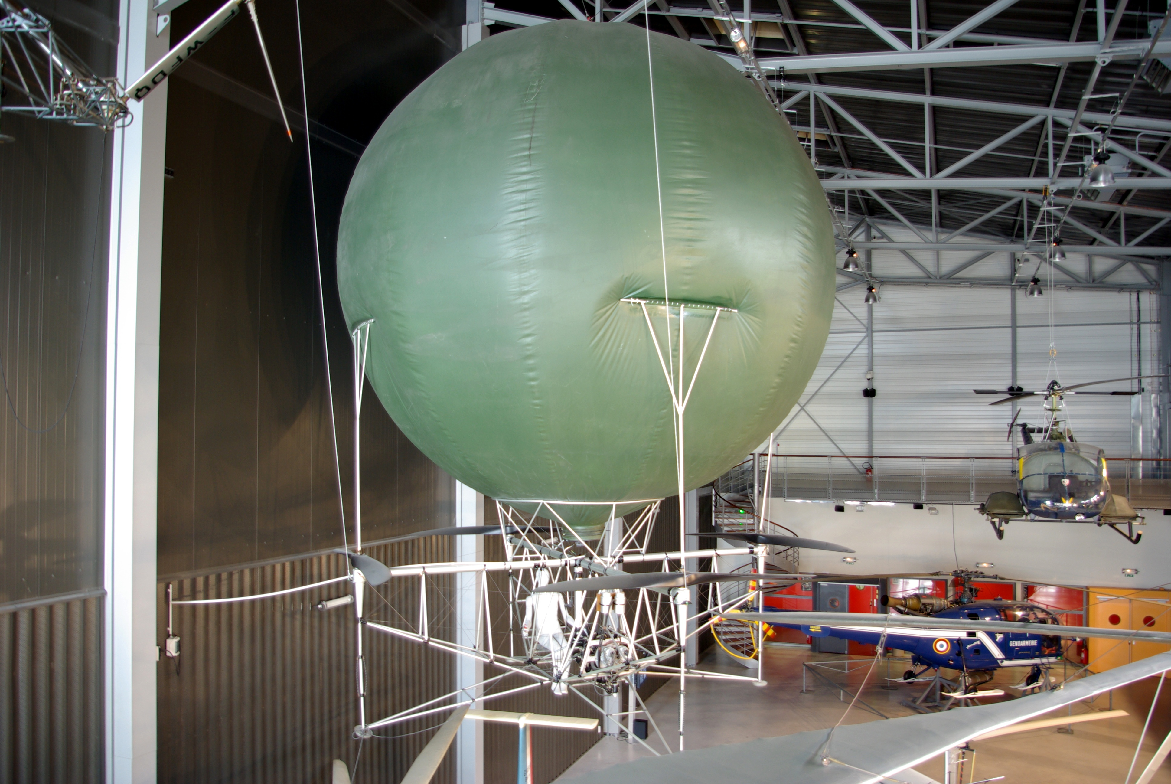 An early helicopter made by Étienne Oehmichen exhibited at the Air & Space Museum at Le Bourget, France.